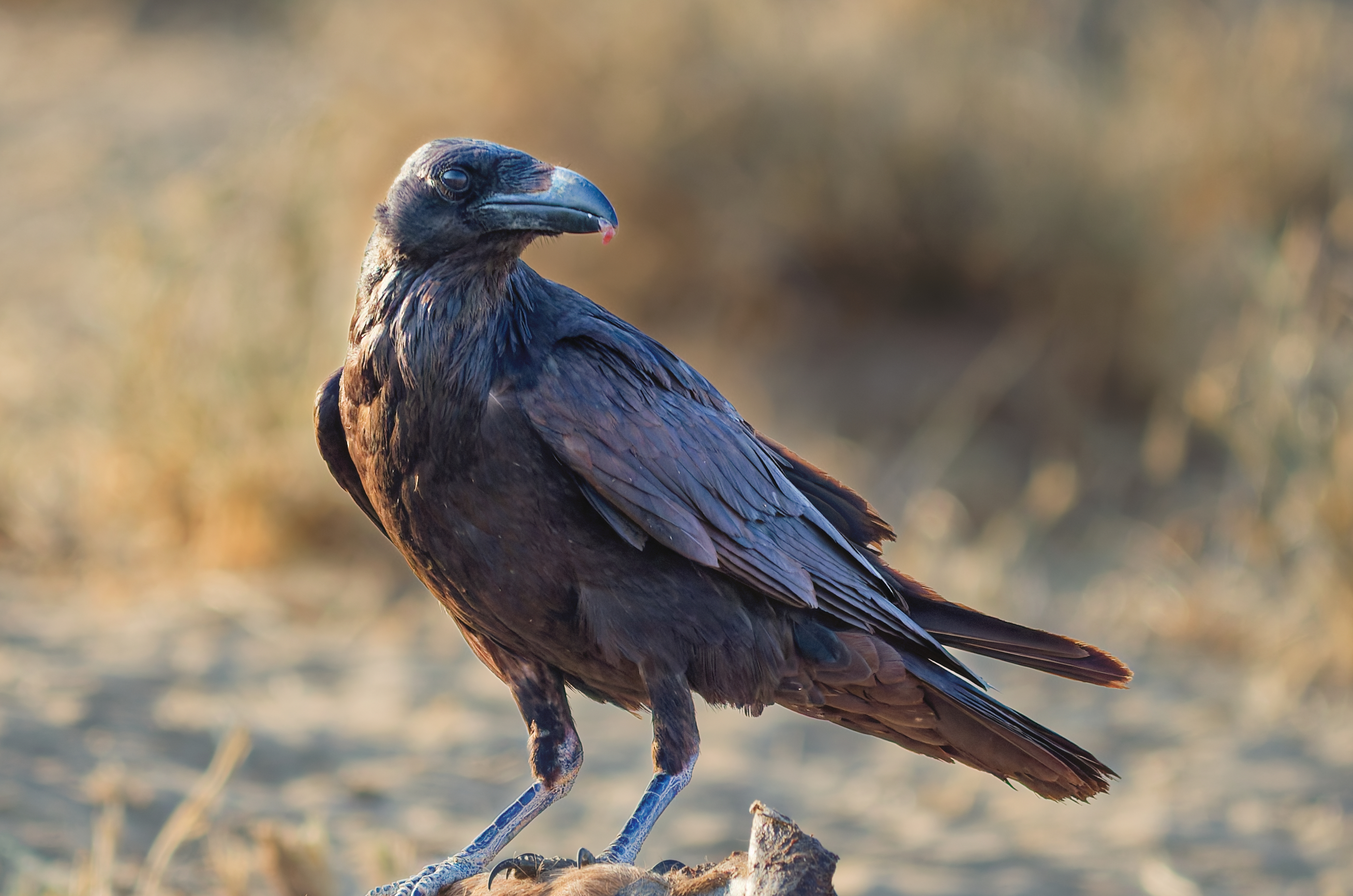 Corvus corax laurencei (subcorax), the Punjab Raven from Desert National Park, India